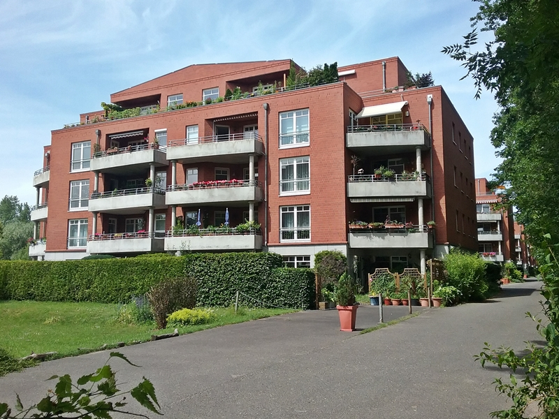 Property Blumberger Park in Berlin-Biesdorf